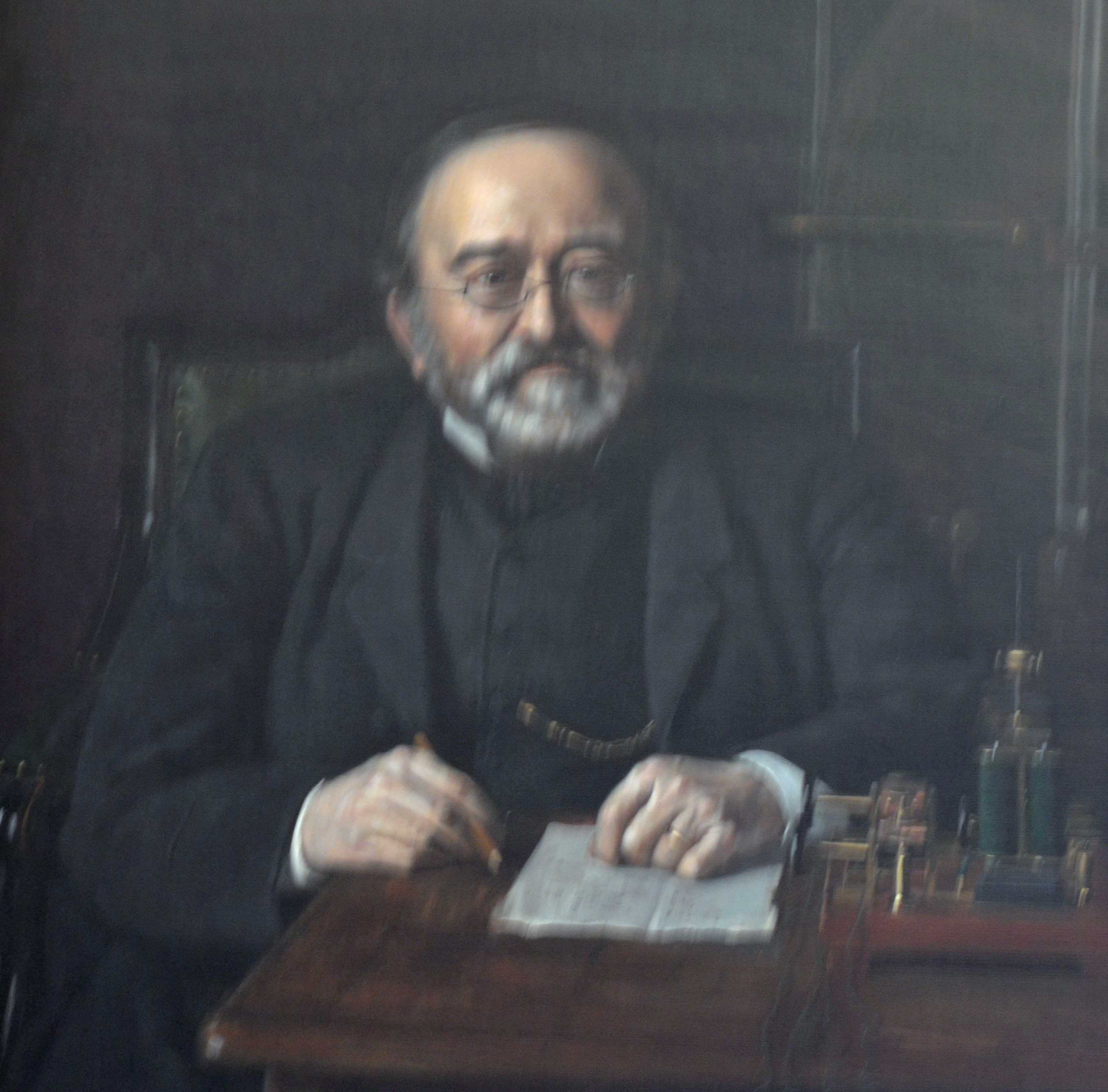 Swedish professor Erik Edlund, 1819-88. Detalj av porträtt på Kungliga Vetenskapsakademien